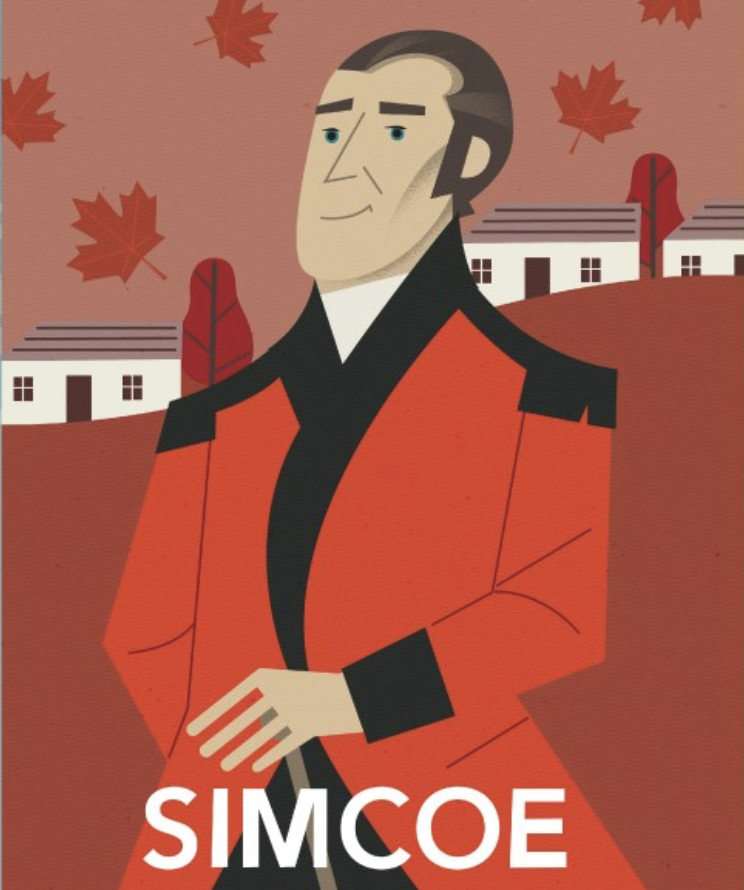 John Simcoe